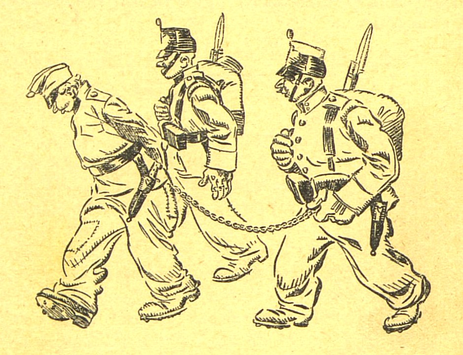 The "good soldier" Švejk arrested after spending two days traveling for a bottle of wine which he should have bought in a local store. An illustration to a pre-WWI series of short stories (Dobrý voják Švejk) by Jaroslav Hašek where the famous character appeared for the first time.